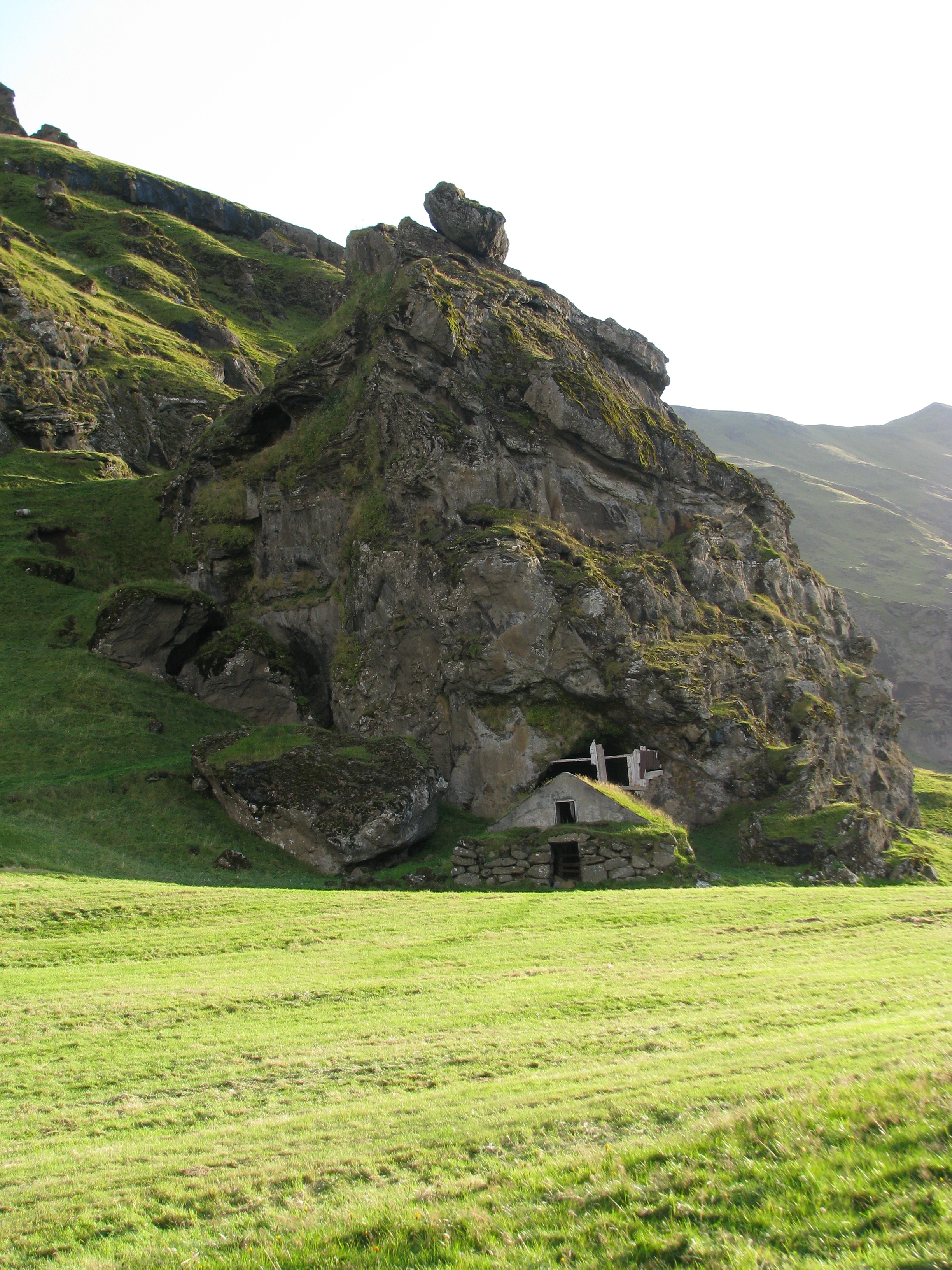 Rútshellir, a man made cave in South-Iceland